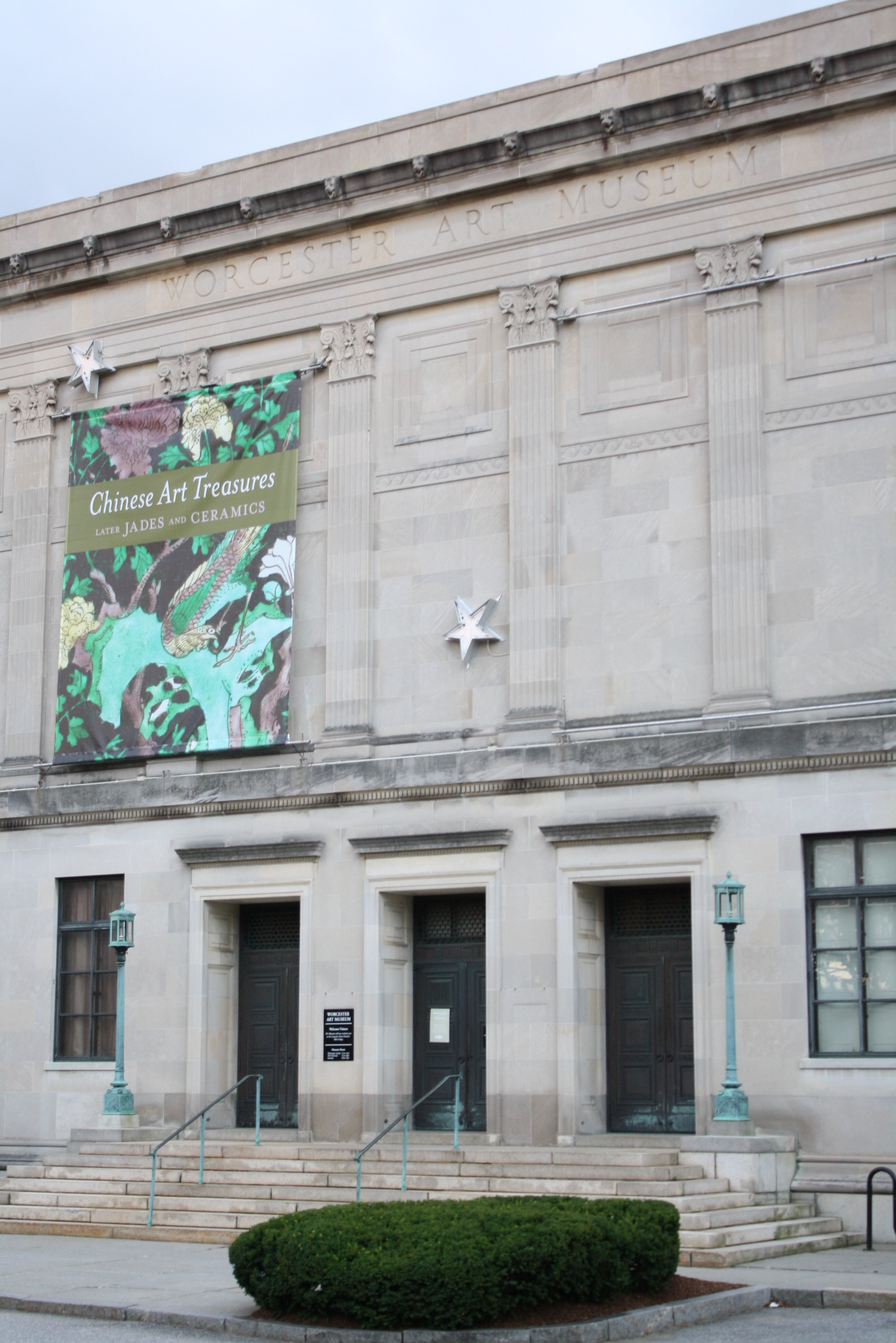 Worcester, MA, USA